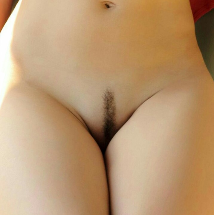 Poils